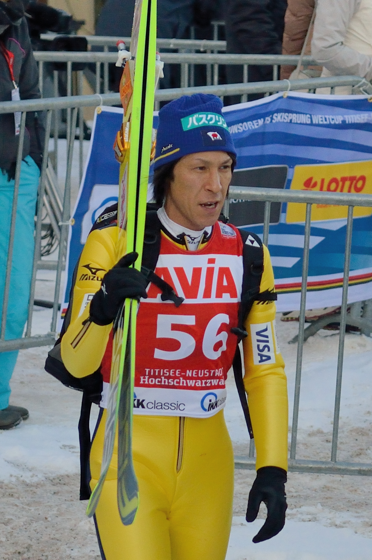 Noriaki Kasai (Ski jumper)